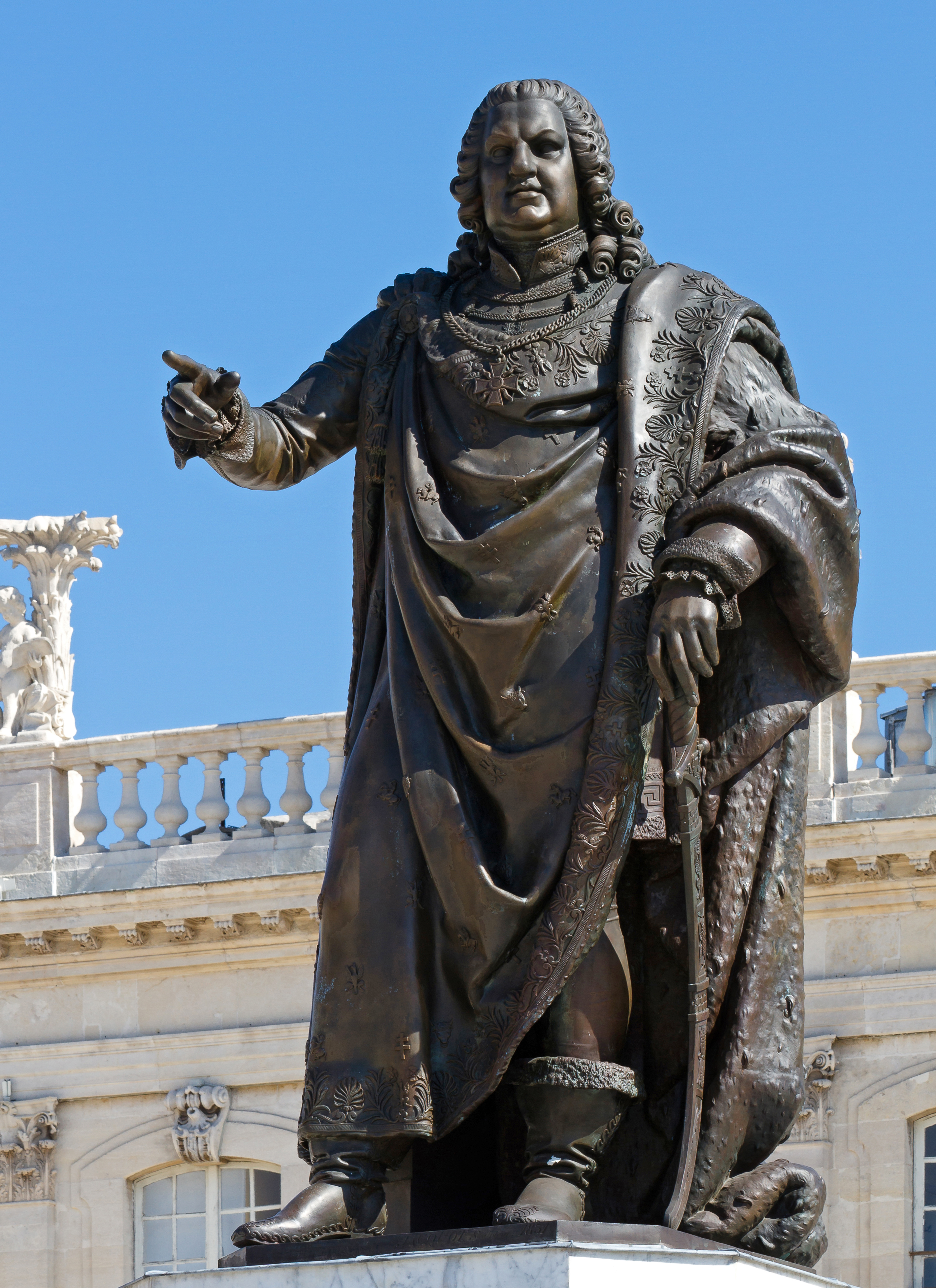 Statue of Stanislas Leszczyński on Place Stanislas in Nancy It is indexed in the Base Mérimée, a database of architectural heritage maintained by the French Ministry of Culture, under the references PA00106311 and PA00106099 .